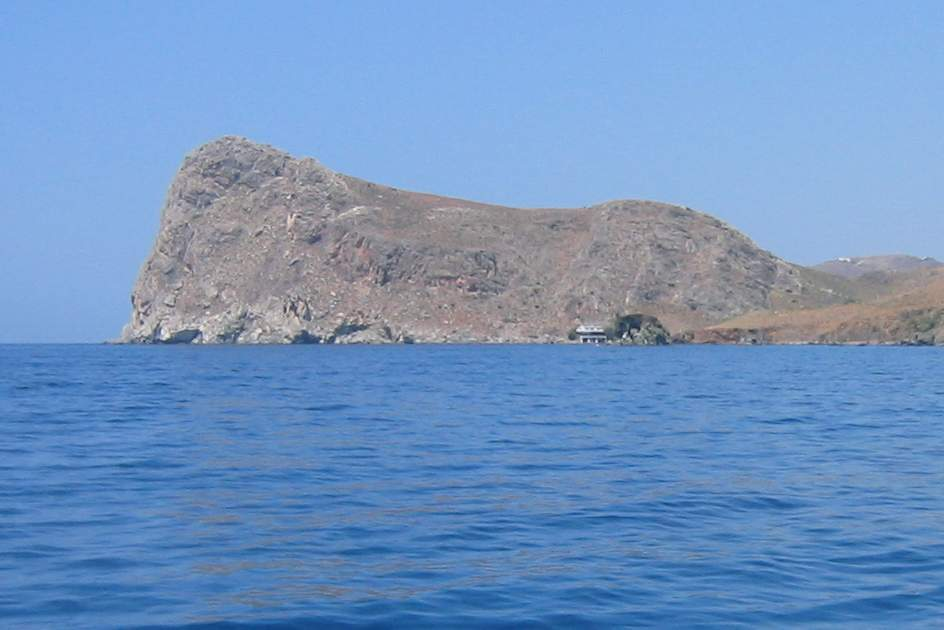 I have taken this photo myself.